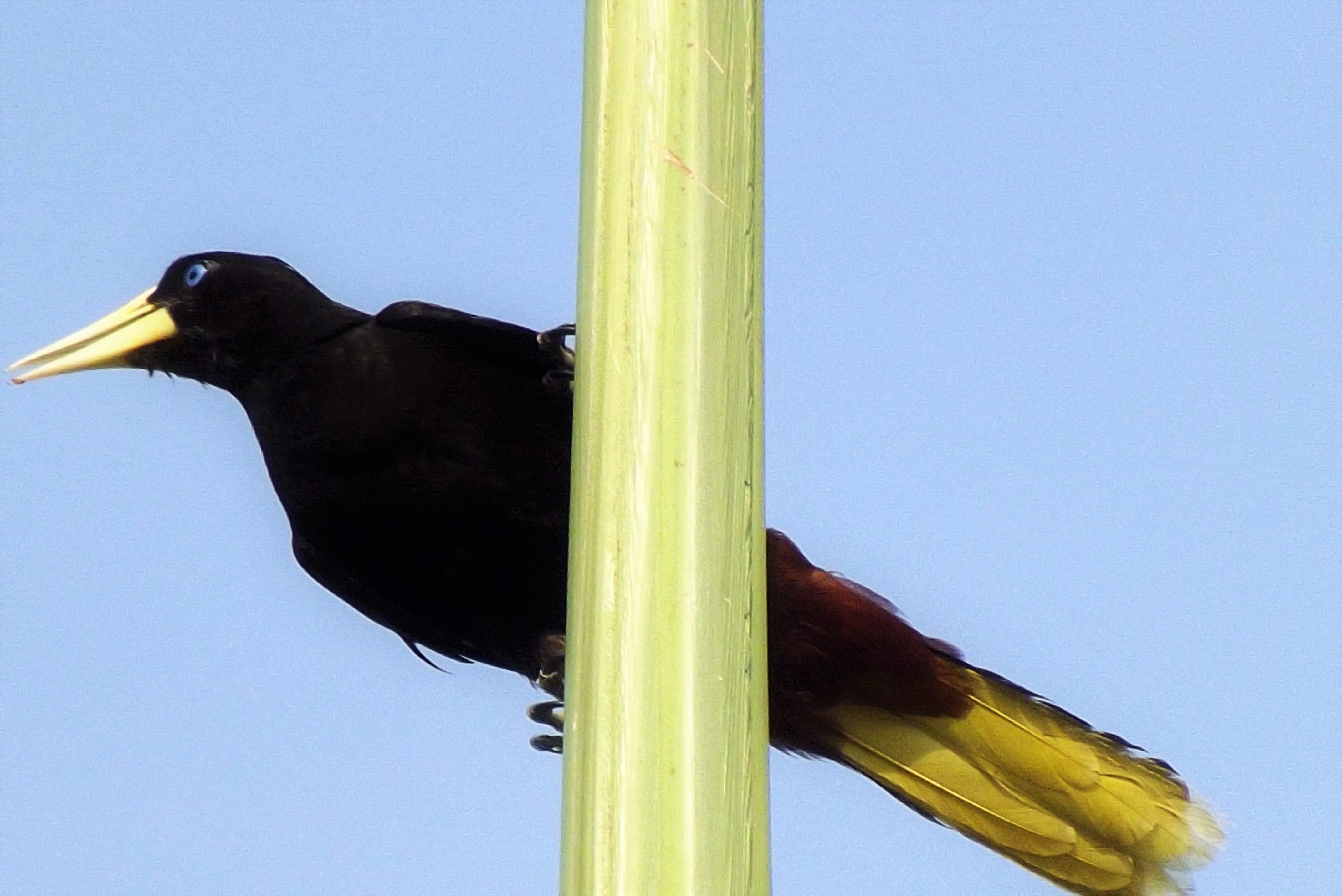 Conoto negro - Yapu (Psarocolius decumanus) reposando en lo mas alto de una palmera en Maracay -Venezuela